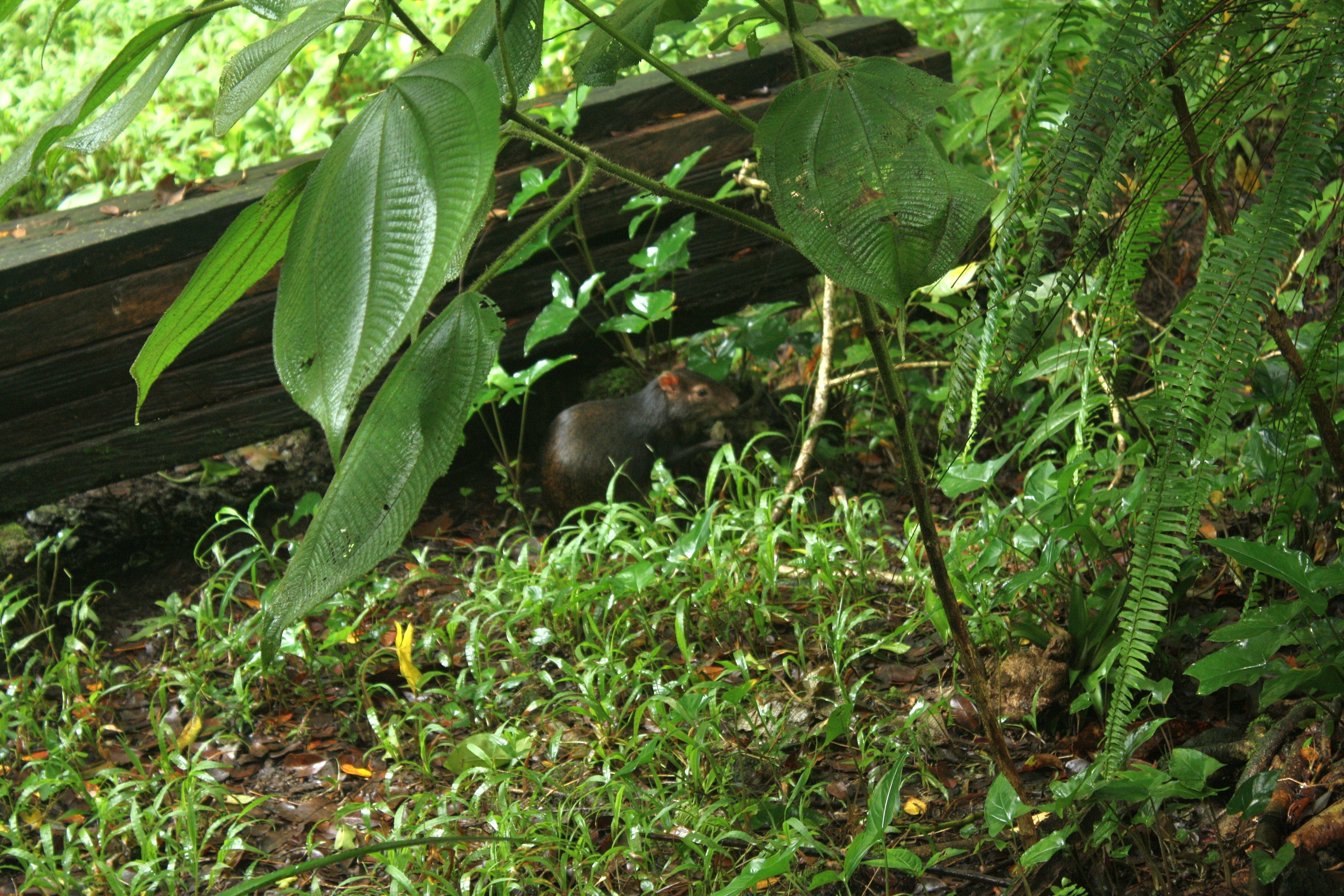 Brazilian Agouti (Dasyprocta leporina) feeding; on border of Mornes Trois Pitons National Park, Dominica.